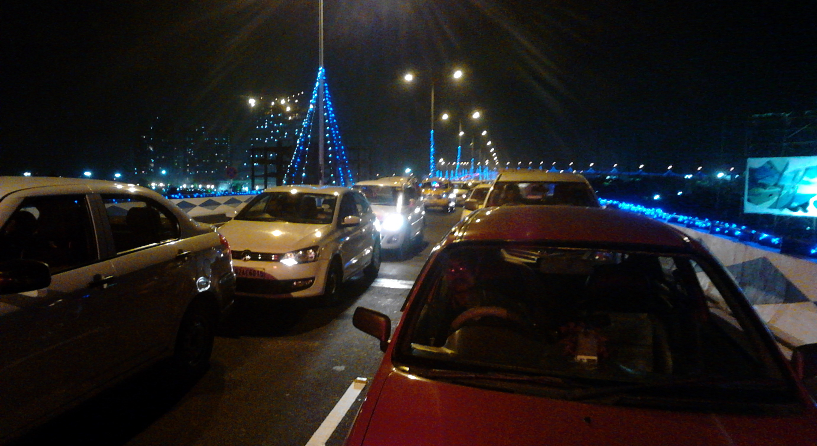 The Parama Island Flyover (officially Maa) is 4.5-kilometre-long flyover in Kolkata. It was opened on Friday, 9 October 2015 at 12 Noon, by the WB Chief Minister Mamata Banerjee. It took twelve years to build.